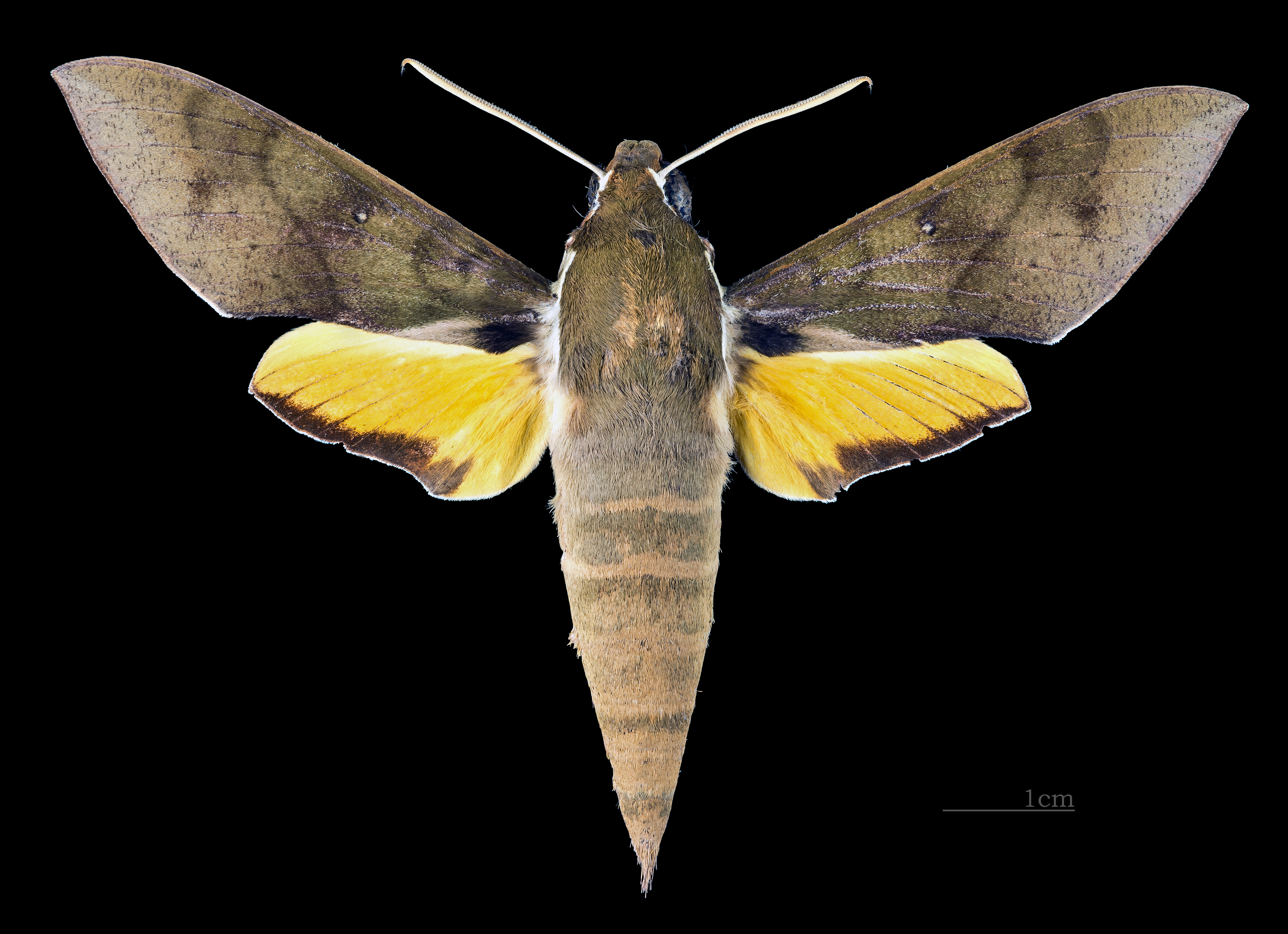 Gnathothlibus eras - Dorsal side Collection of the Mathematician Laurent Schwartz